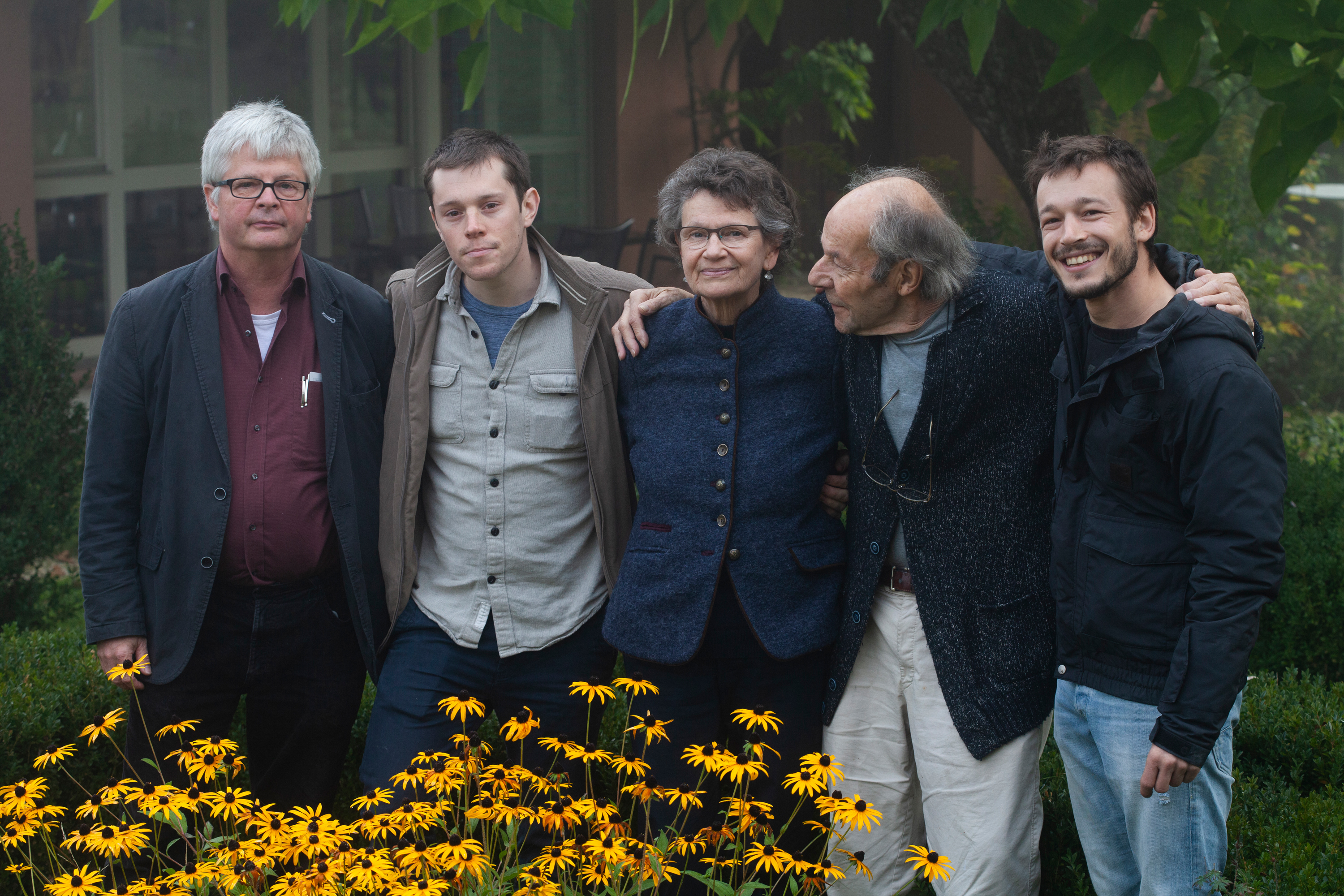 Zudem ist der Traum oft Realität genug film crew, from left to right: Matthias Leupold, Jérôme Depierre, Stella Tenger, Hugo Jaeggi, Omid Taslimi.